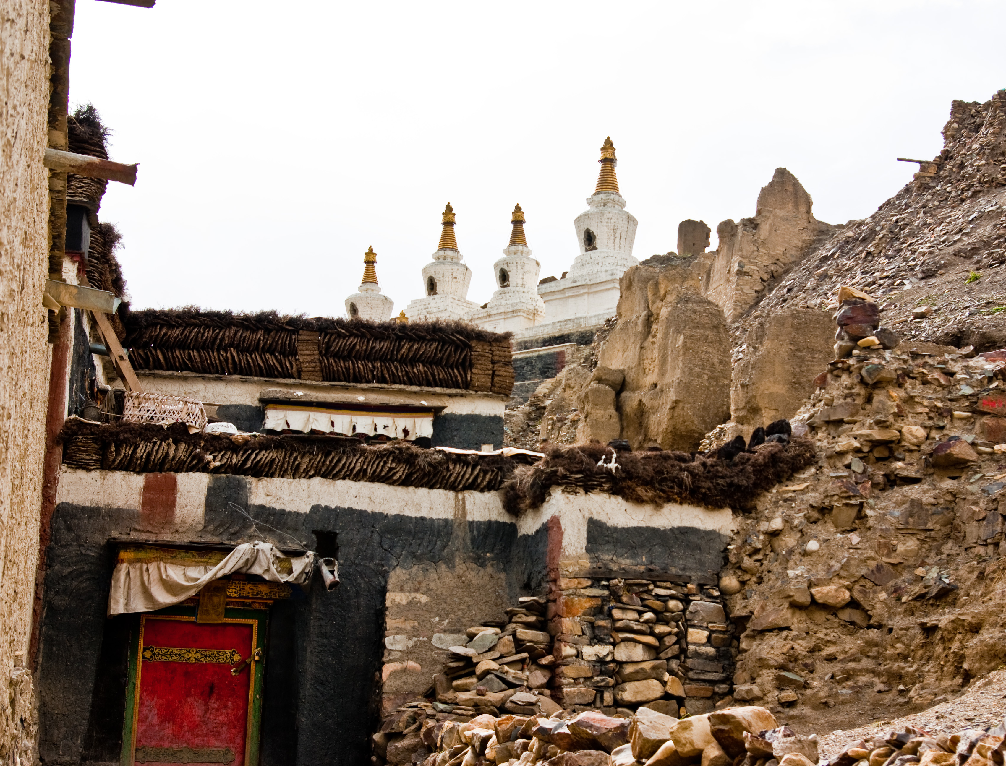 sakya monastery